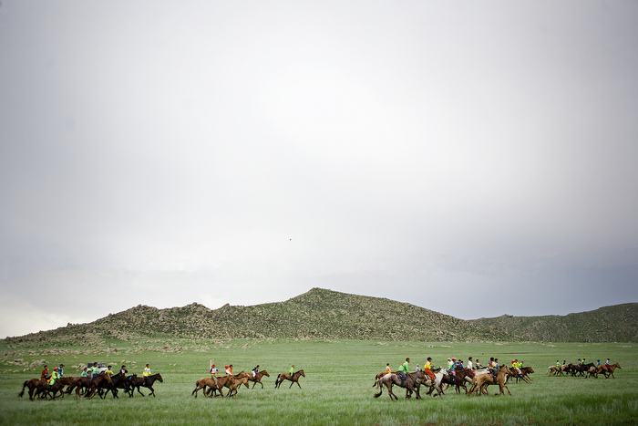 Jockeys ride out to the starting line of a Naadam horse race. Ugtaal Soum, Mongolia.